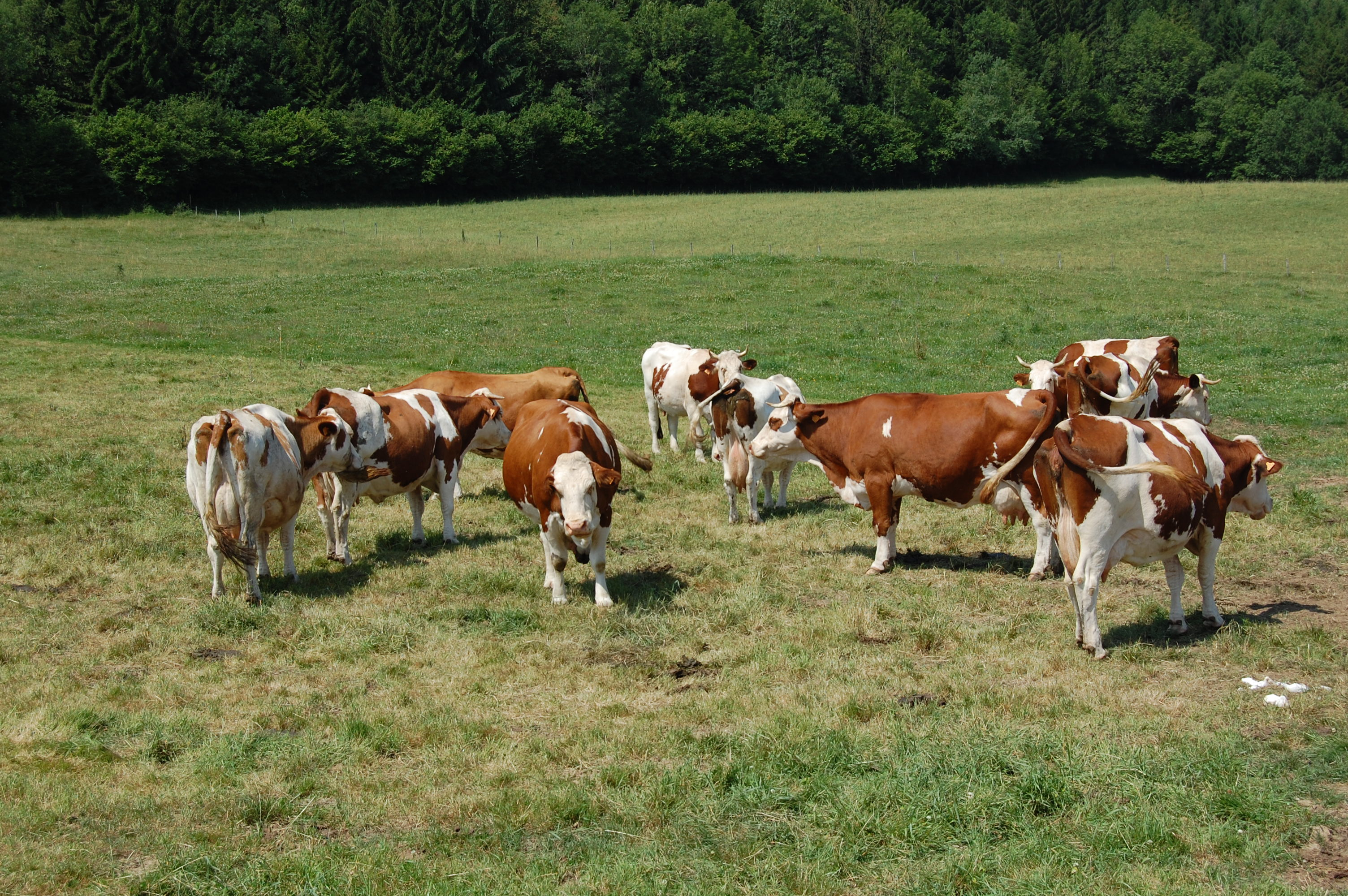 Montbeliard Cattle near Champagnole, département Jura, France.